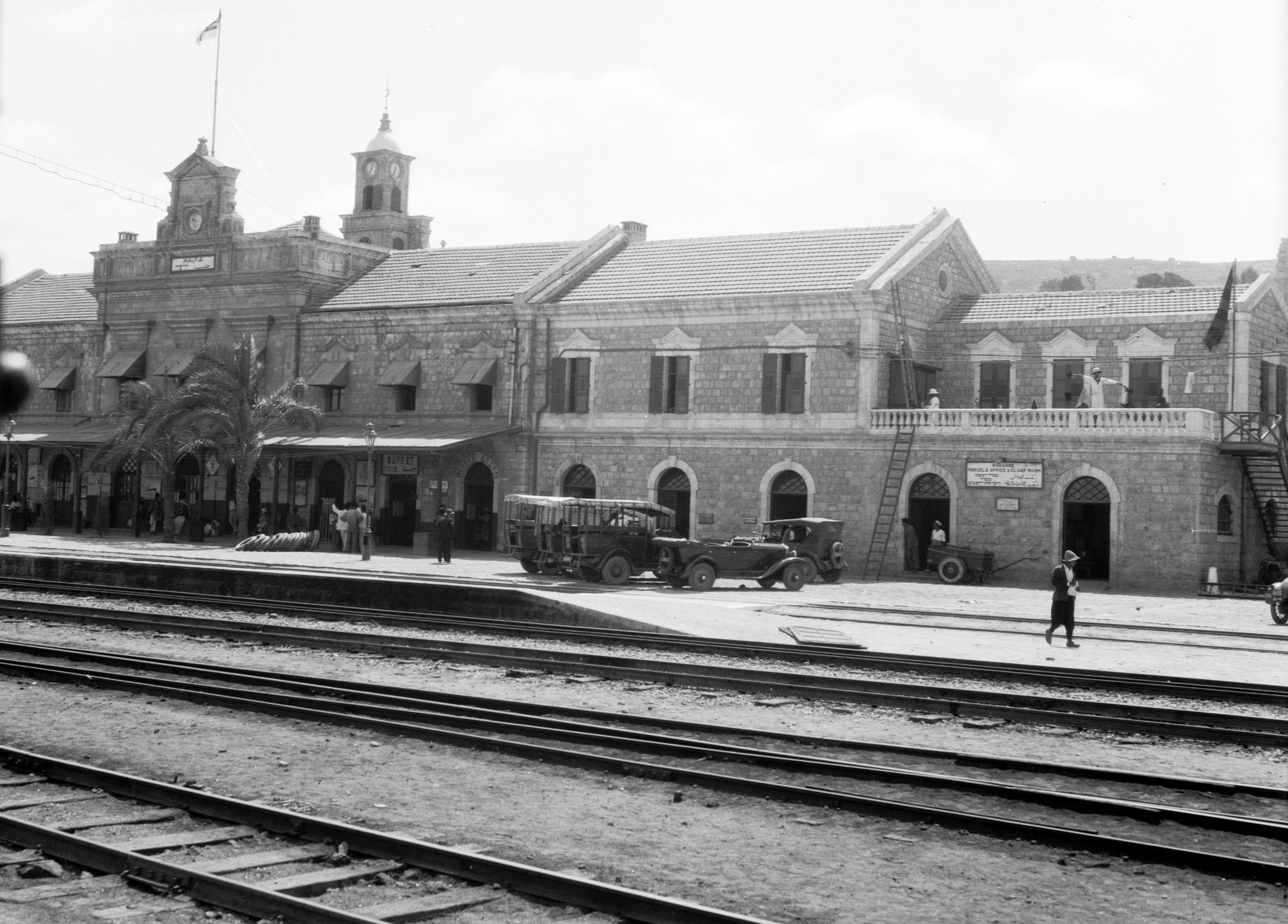 Haifa RR sta [i.e., railroad station]